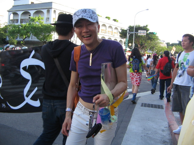 Professor NING Yingbin (甯應斌) at 2009 Taiwan Pride parade. Taken with the assistance of DENG Yingyu.